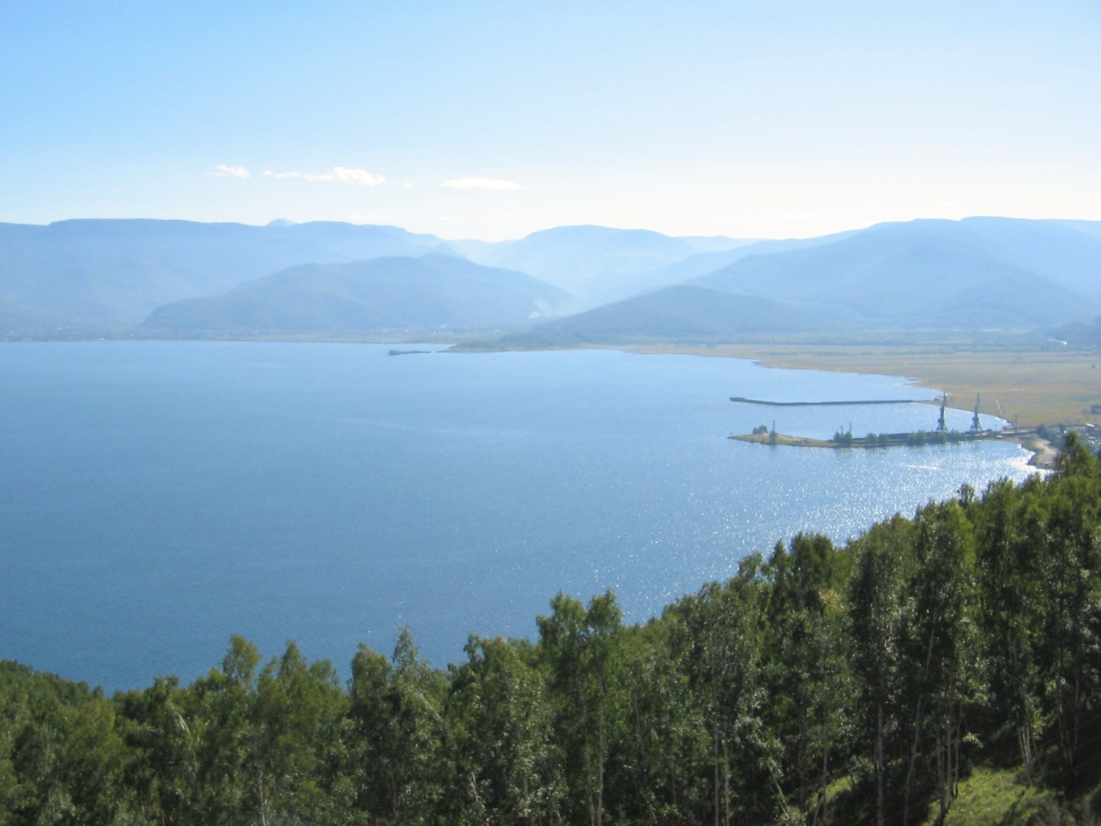 Westernmost tip of the Baikal Lake, coastal towns Kultuk and Slyudyanka in the background